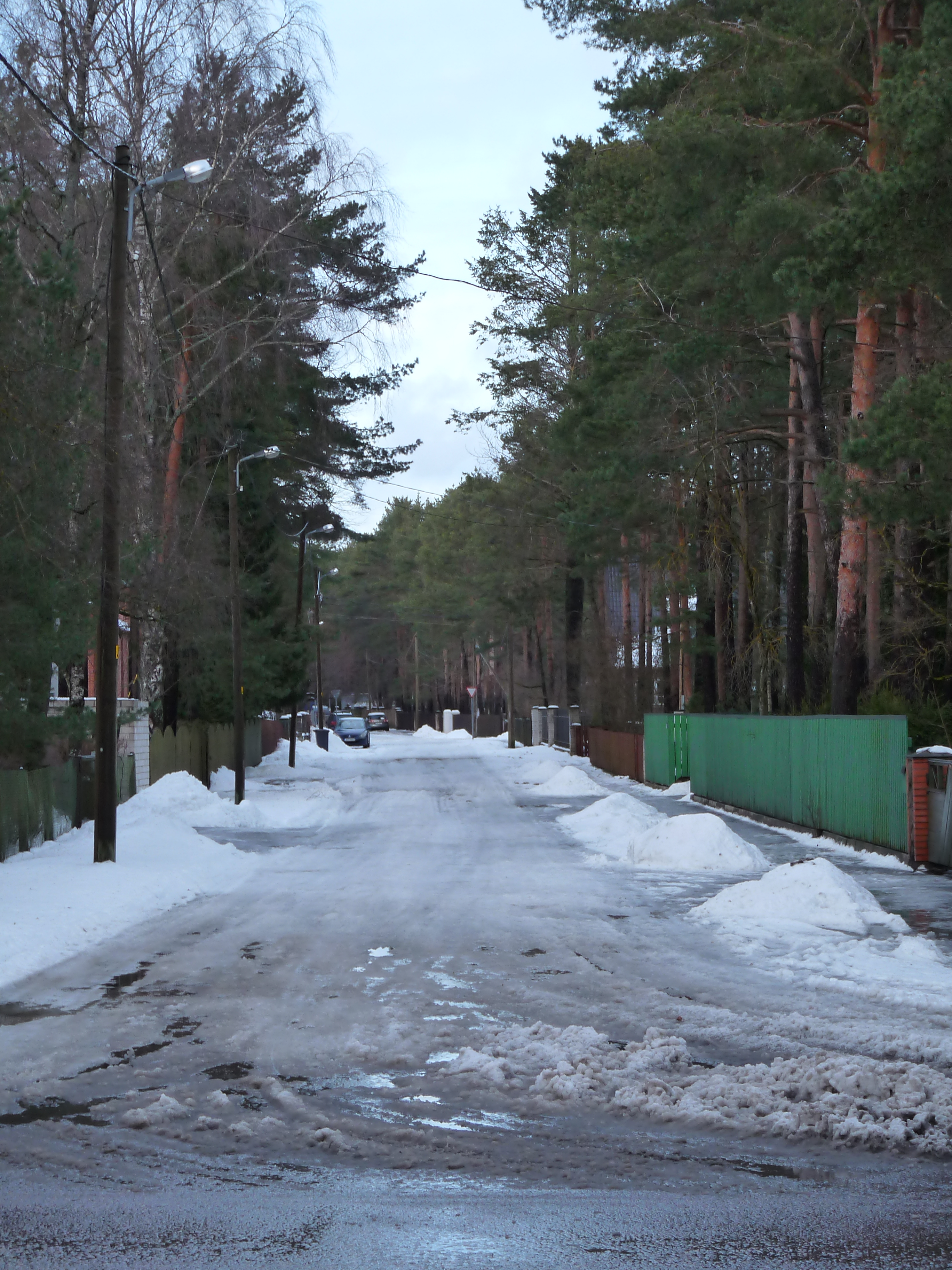 Nelgi street in Tallinn, Estonia